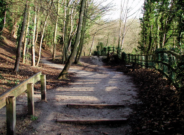 Humber Bridge Country Park, Hessle, East Riding of Yorkshire, England.Looking east along the track above the western pool, in the former quarry where chalk was excavated and crushed to make the 'whiting' used in paints, cosmetics and bread. The chalk pit became flooded every winter and was eventually abandoned in 1960. It has been a popular recreation area ever since, becoming known locally as 'Little Switzerland'.